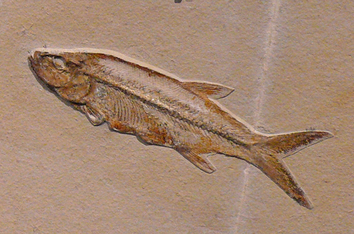 Pachythrissops propterus from Solnhofen